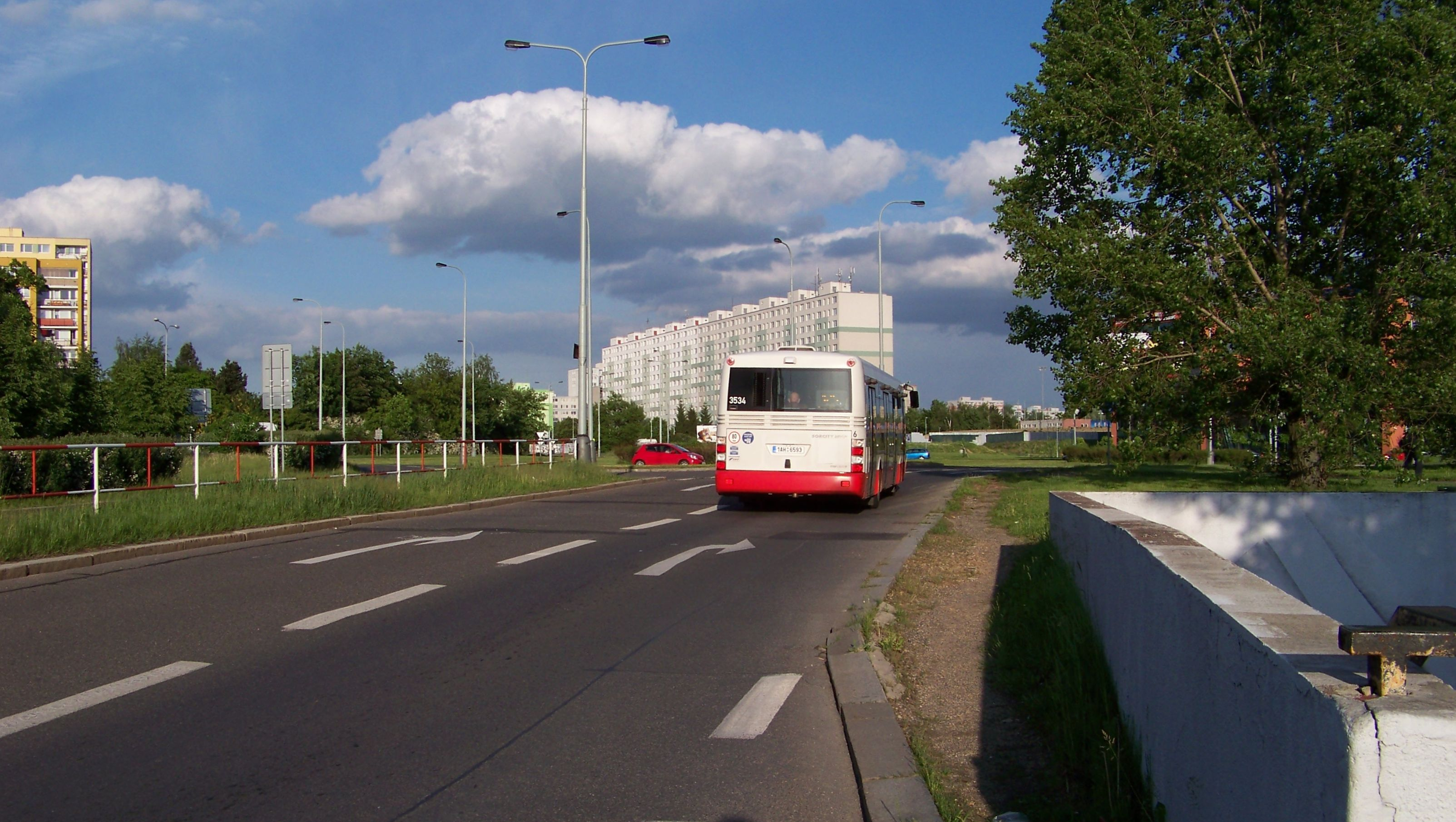 Prague-Chodov. Litochleby Square, a bus.